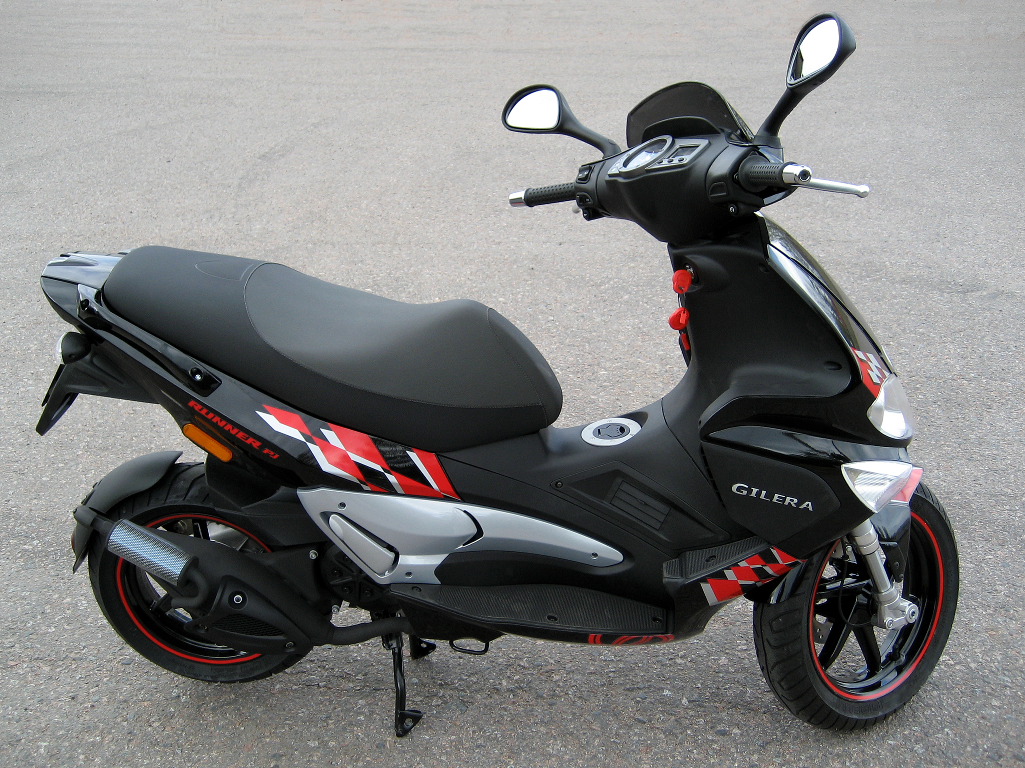 Gilera Runner PJ 50 (model year 2007) is a sporty two stroke moped class (50cc) automatic scooter with fuel injection.